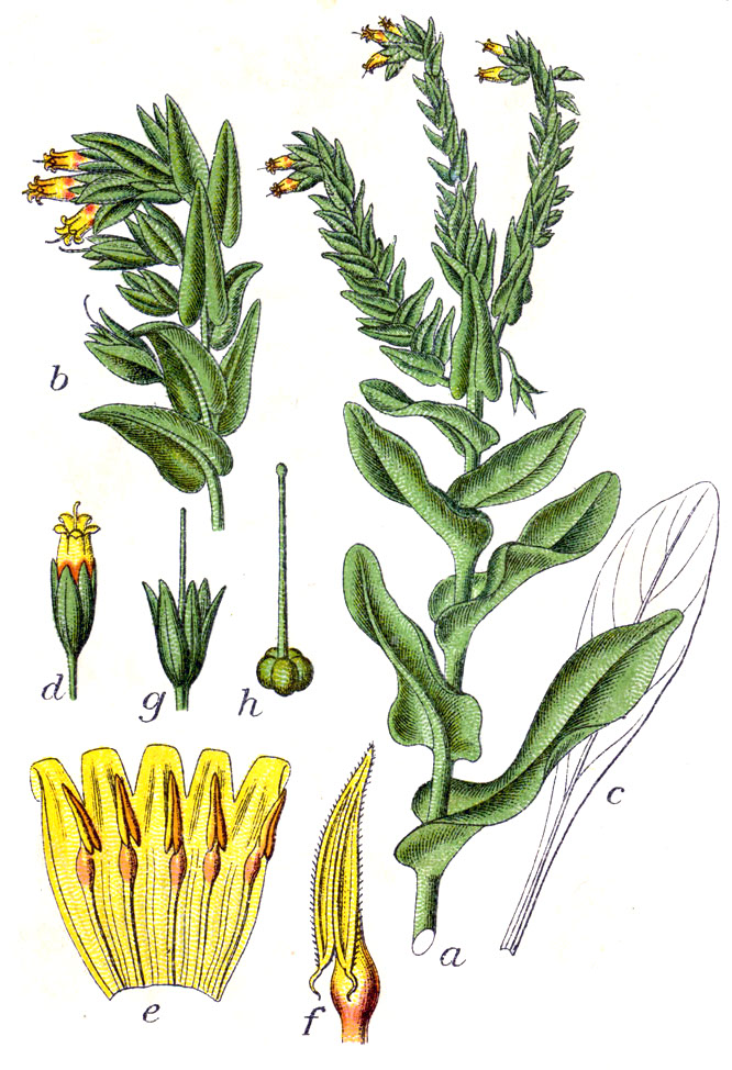 Cerinthe glabra subsp. glabra, syn. Cerinthe alpina Schult. Original Caption Alpen-Wachsblume, Cerinthe alpina